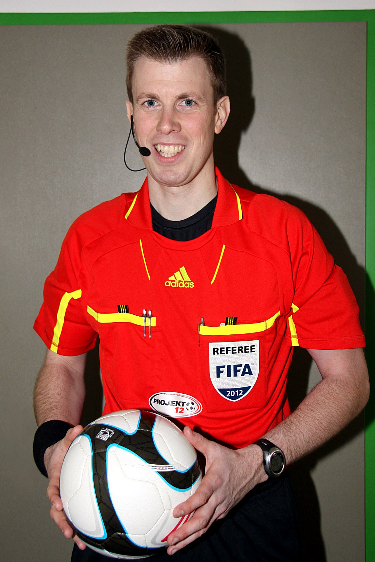 Markus Hameter - Referee (association football) of Austria